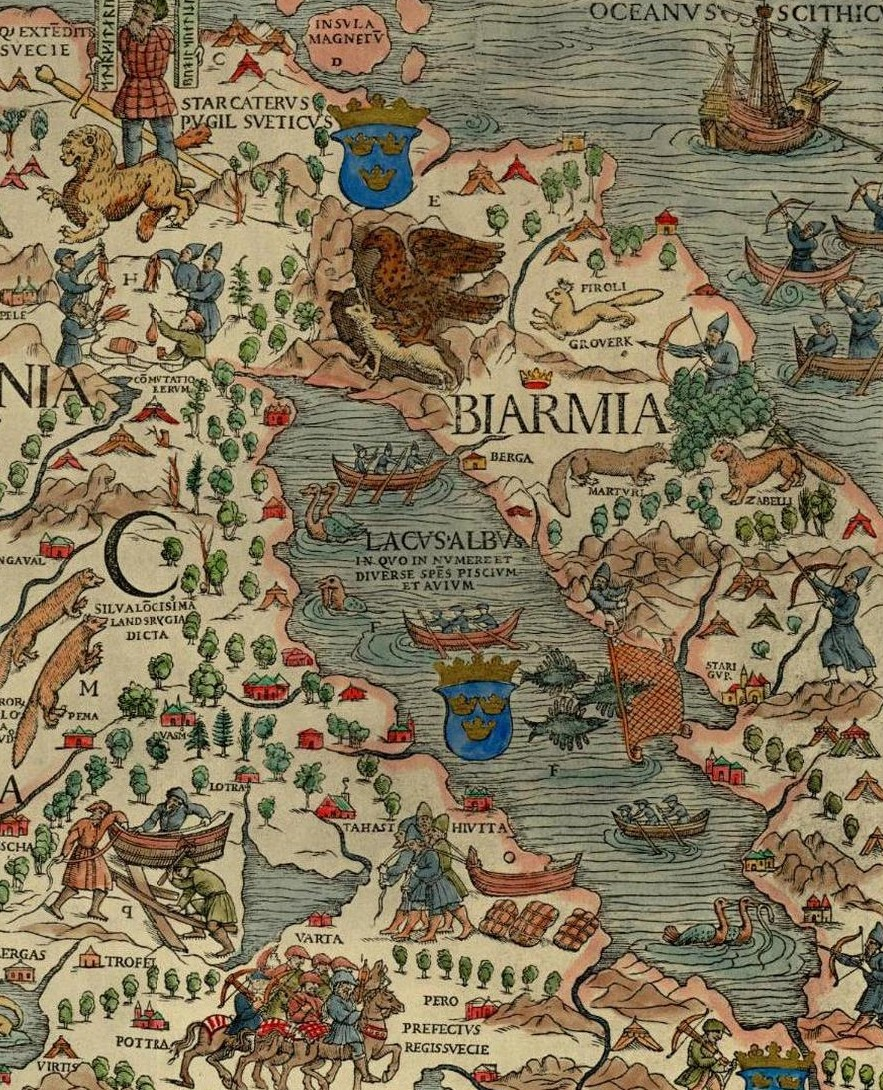 cropped from